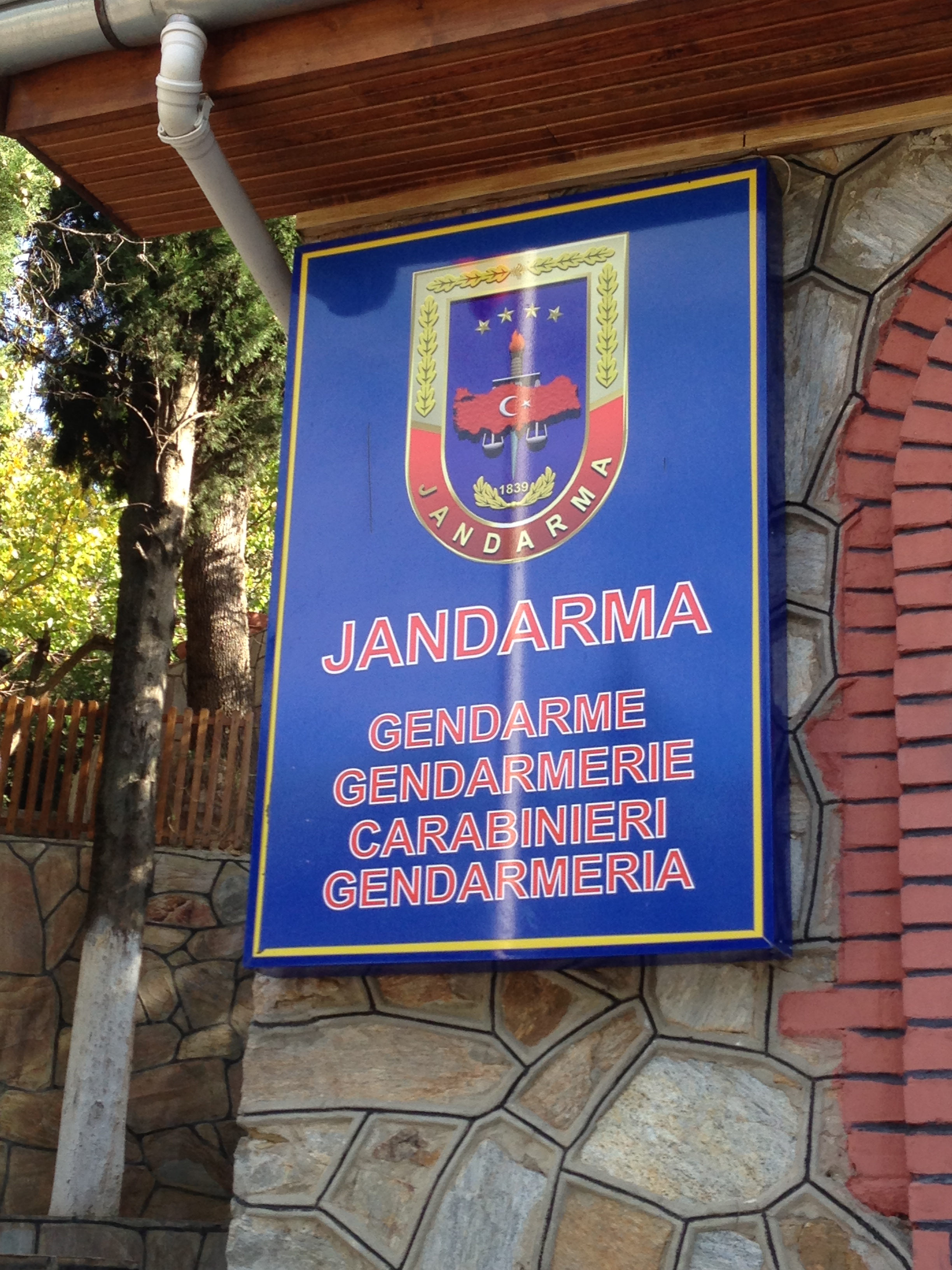 A sign of the Turkish Gendarmerie General Command with the word "Gendarme" in Turkish (Top), followed by English/French, Italian and Spanish.